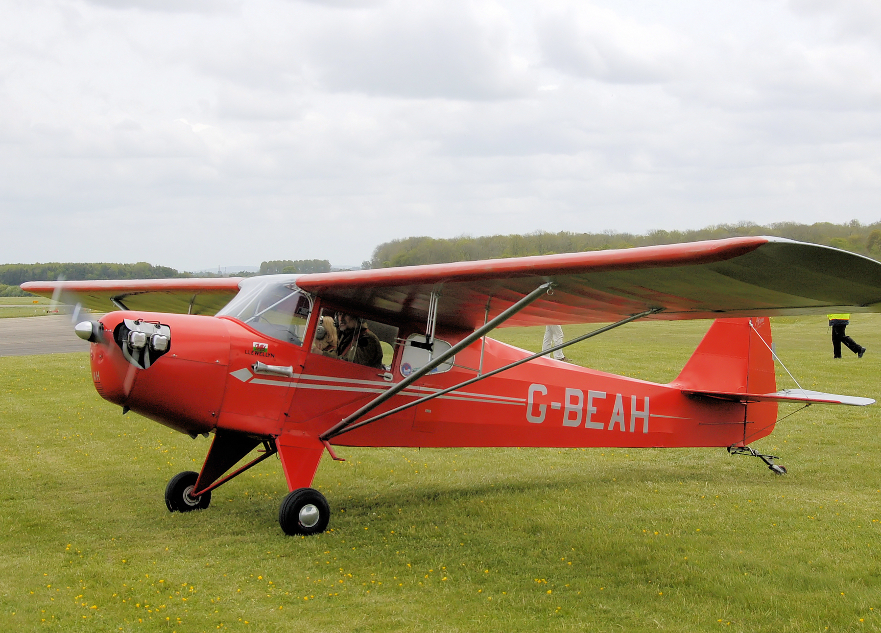 1946-built Auster 5J2 Arrow (G-BEAH) at the Great Vintage Flying Weekend, Kemble Airport, Gloucestershire, England.